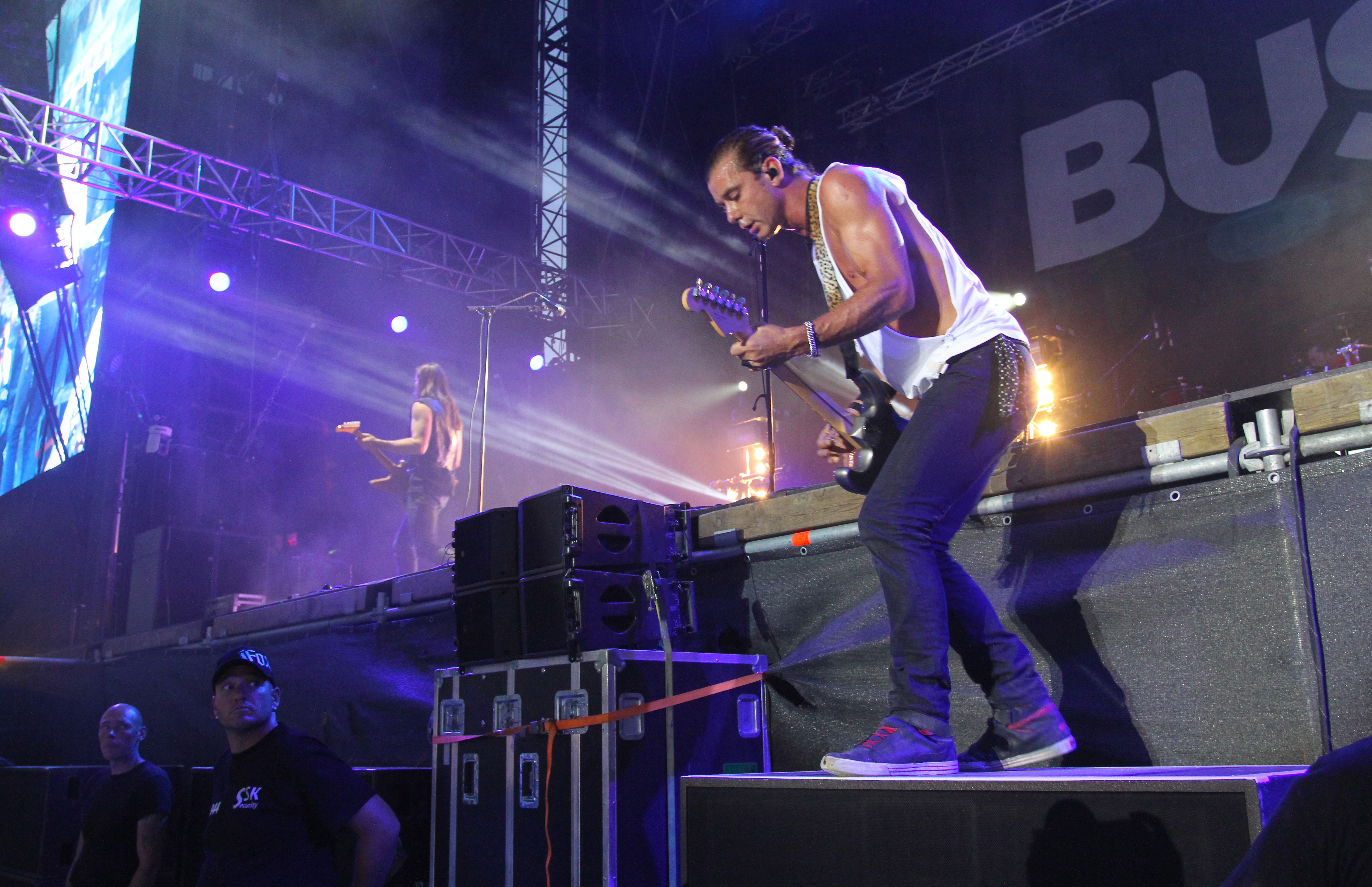 Posted via email from Globalite Magazine